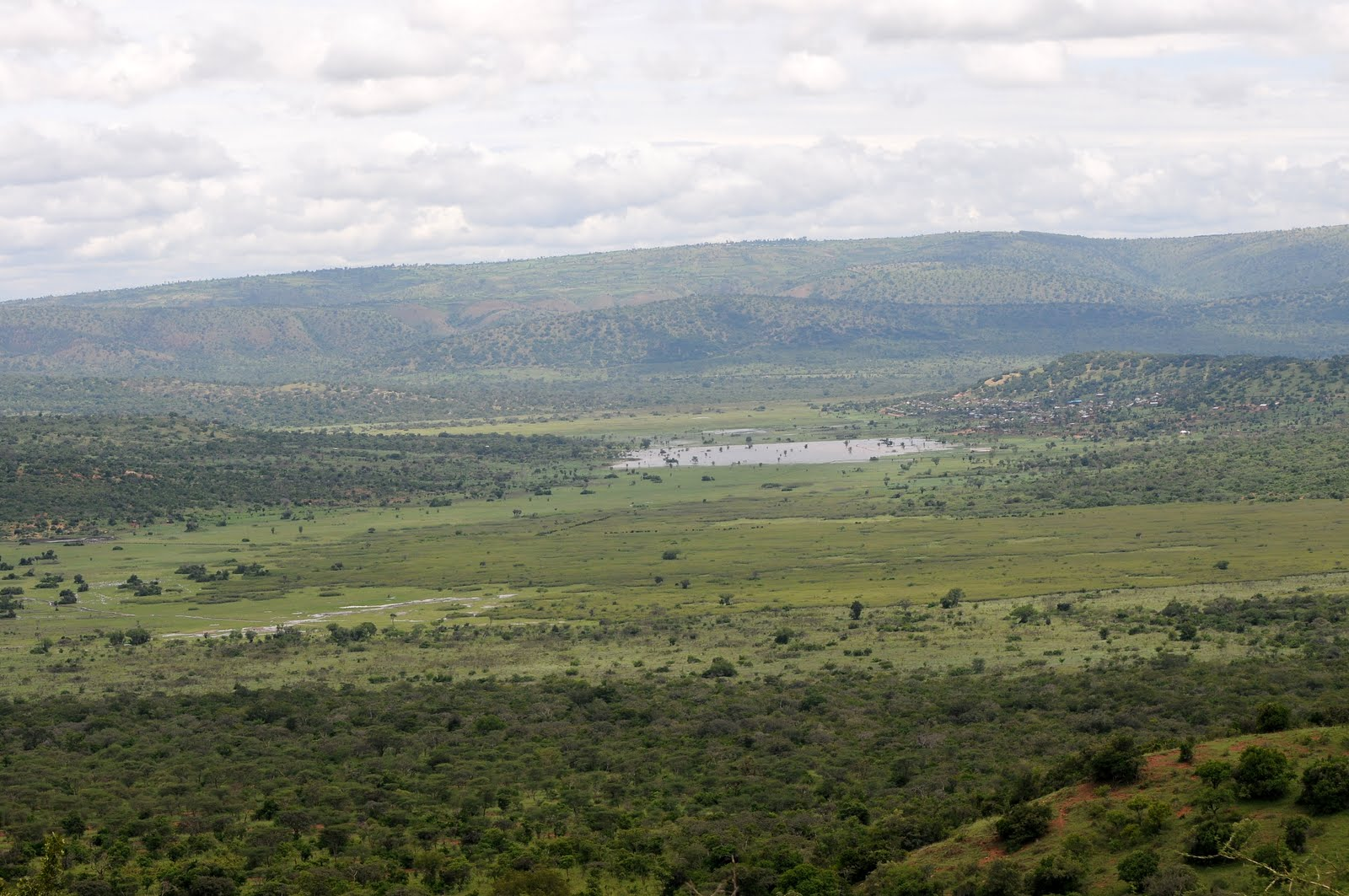 A view of the Parc National d'Akagera, Rwanda